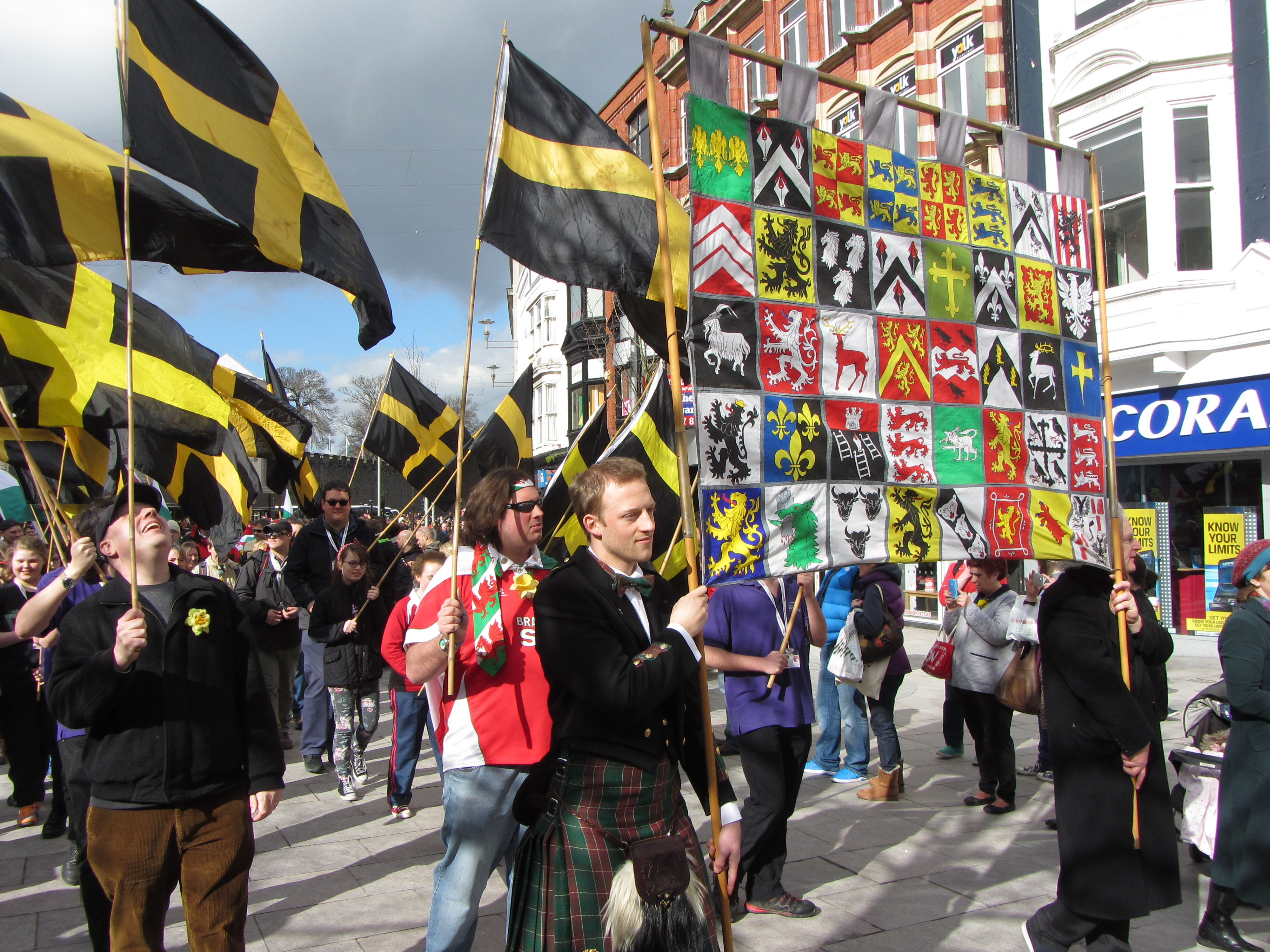 St. David's Day parade, Cardiff. Many St. David's flags are seen on St. John Street.